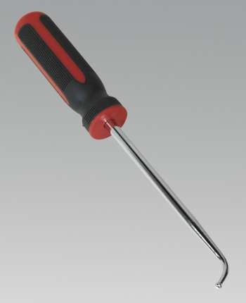 A tool used to clean and remove broken glass from glass run channels.